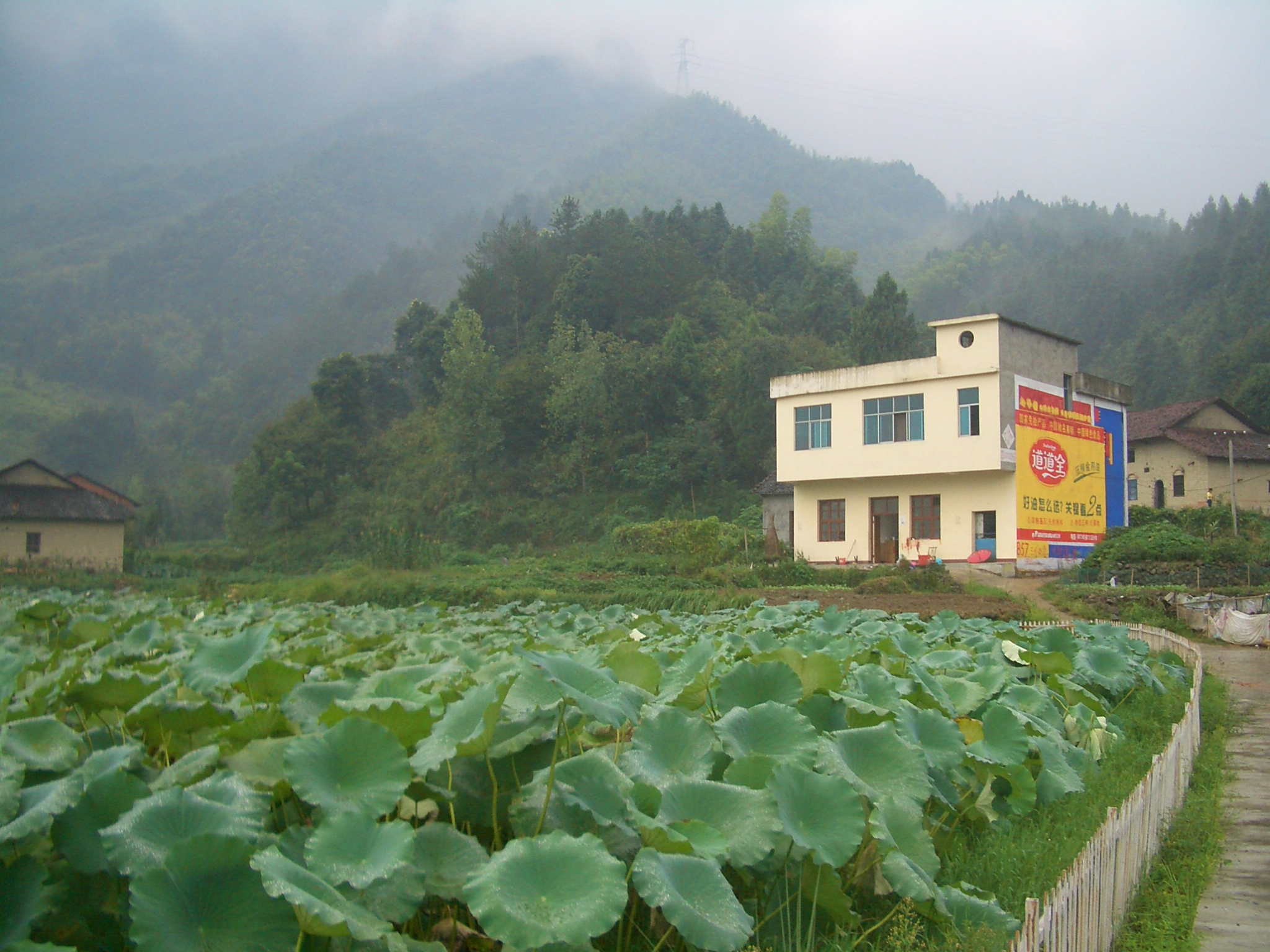 A village in Tongshan County, Hubei (in the Fanzhong Village 畈中村 area, between Tongyang Town and Jiugong Town (Hengshitan), seen from Highway G106), with a large pond of lotuses (that's a useful food crop, too!) for the front yard, surrounded by a white picket fence.